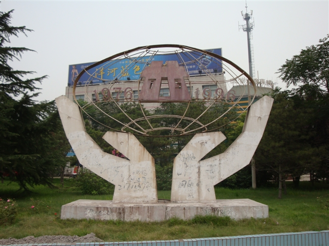 Tangshan urban area, Hebei